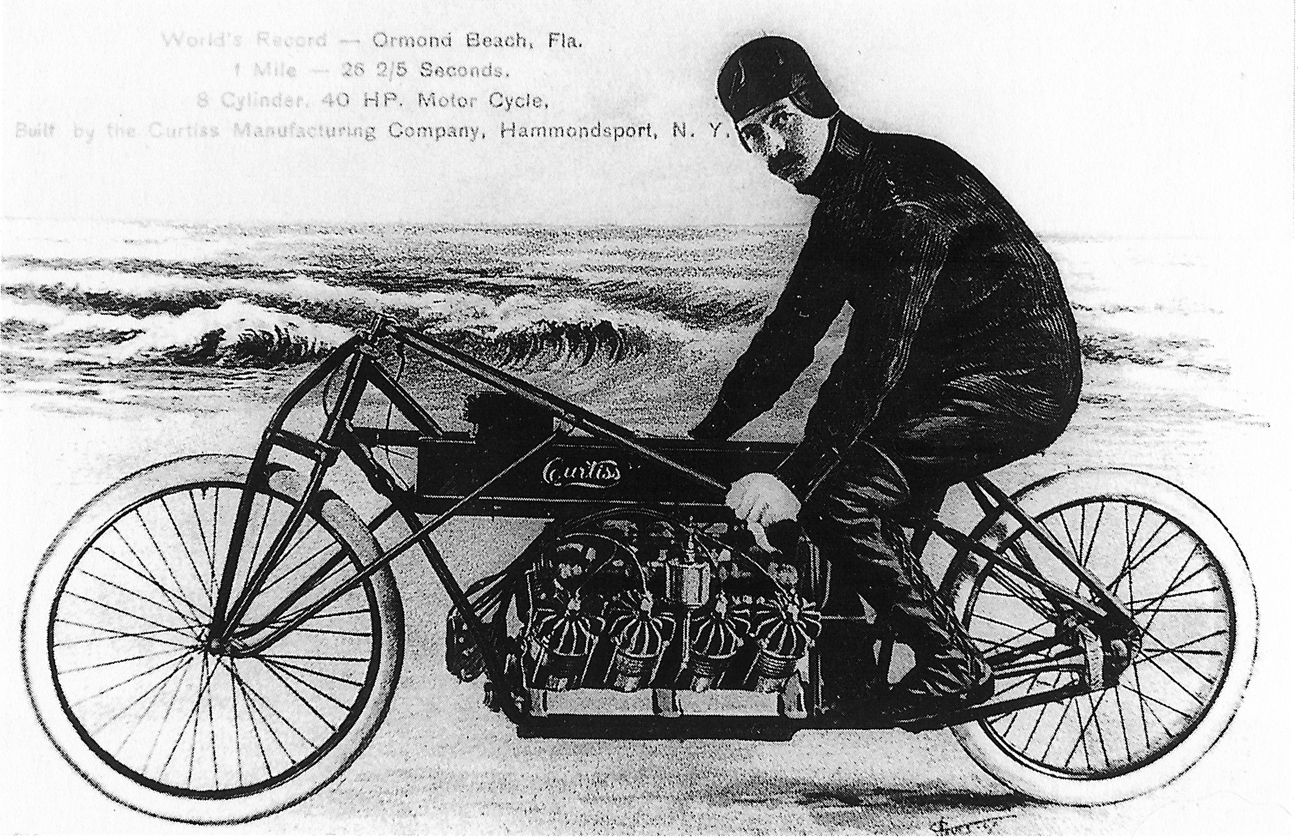 Glenn Curtiss on his V-8 motorcycle, Ormond Beach, Florida, in January 1906